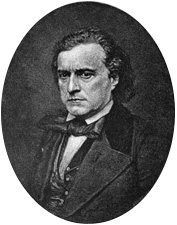 Pierre Soule